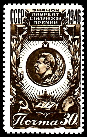 Stamp of the Soviet Union, 1946, depicting medal of Stalin Prize winner. CPA #1100.